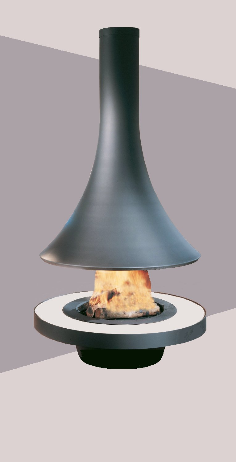 Modern central chimney of an open hearth.